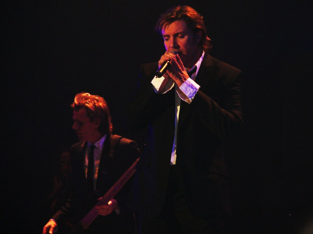 Duran Duran live in London.